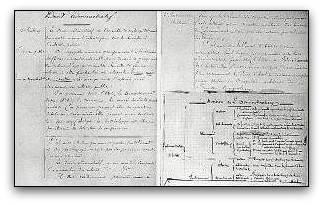 Lecture Notes of Saionji Kinmochi at Meiji University